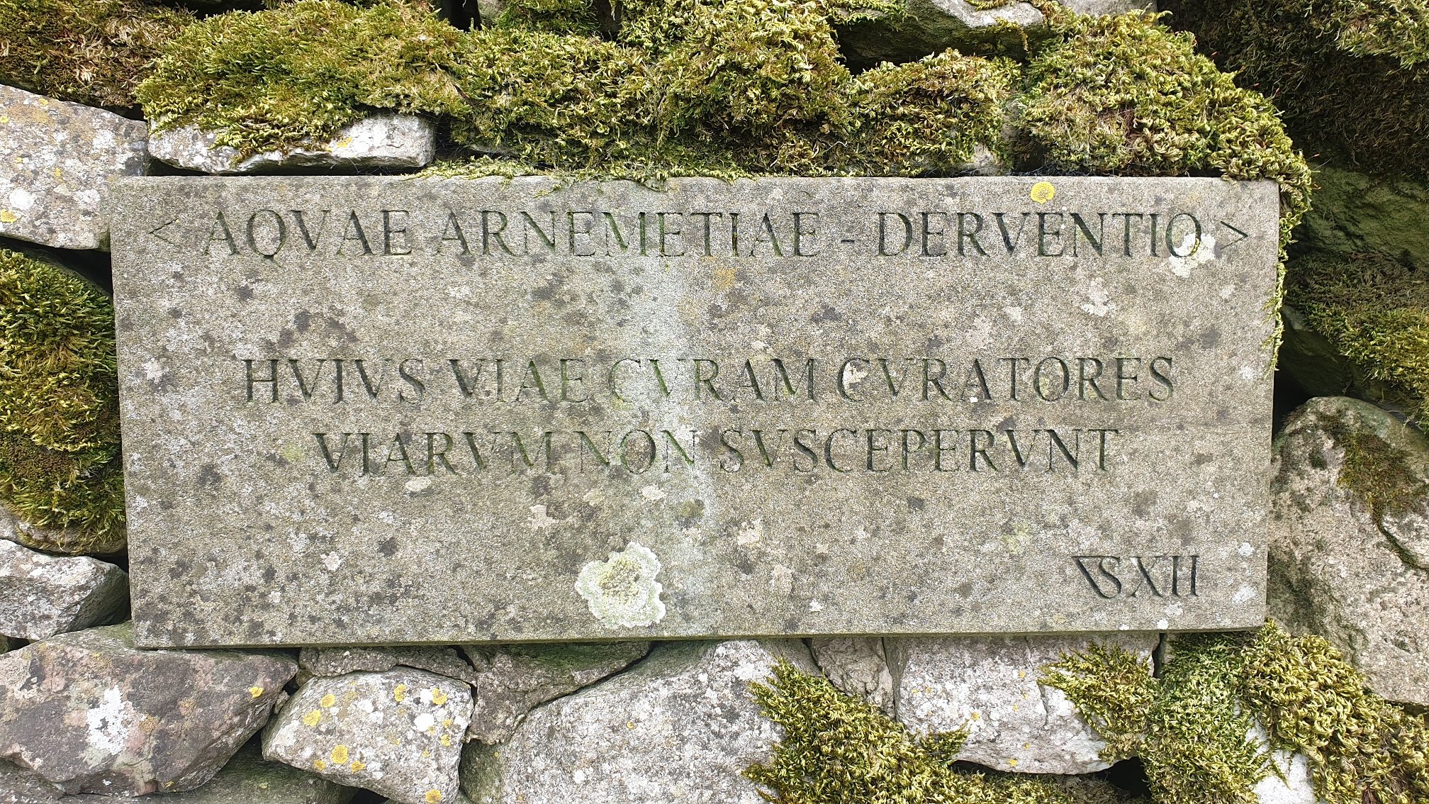 Plaque on The Street (Buxton to Derby Roman Road) by Green Lane